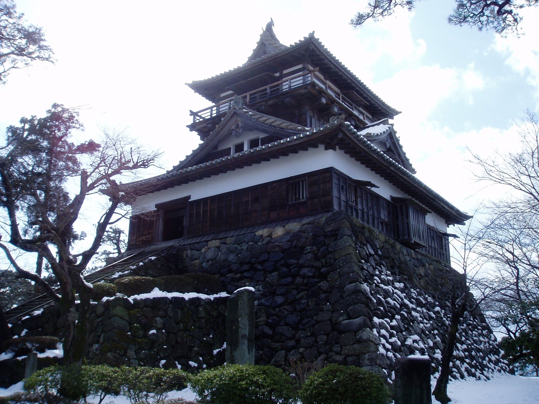 the Keep of Maruoka Castle (丸岡城)